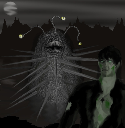 Image of Glaaki and one of its minions, derived from Ramsey Campbell's story THE INHABITANT OF THE LAKE